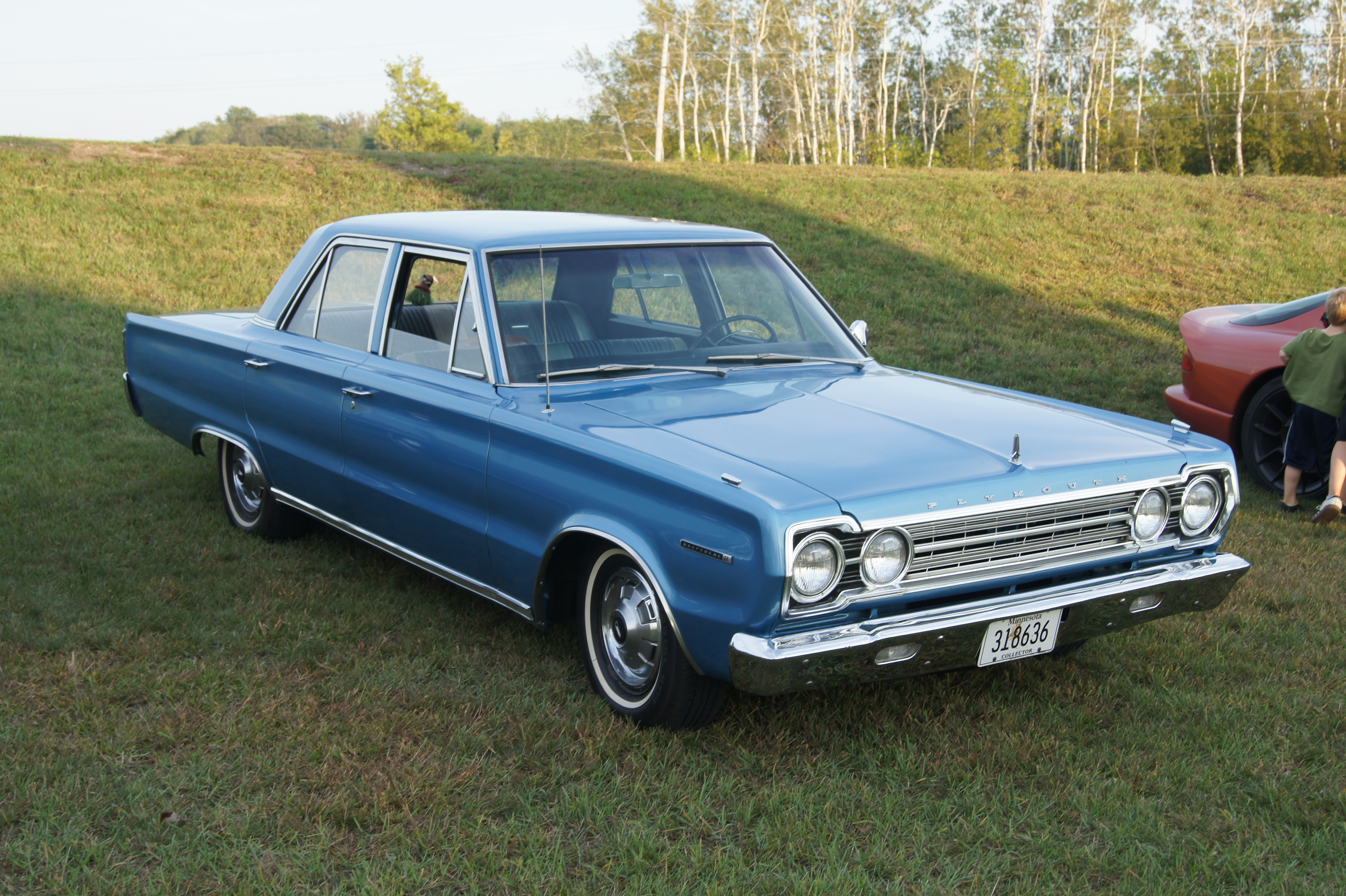 A&W Country Stop Cruise Night September 18th 5pm - Dusk, Door Prizes 7pm New London, Minnesota Click link below for more car pictures